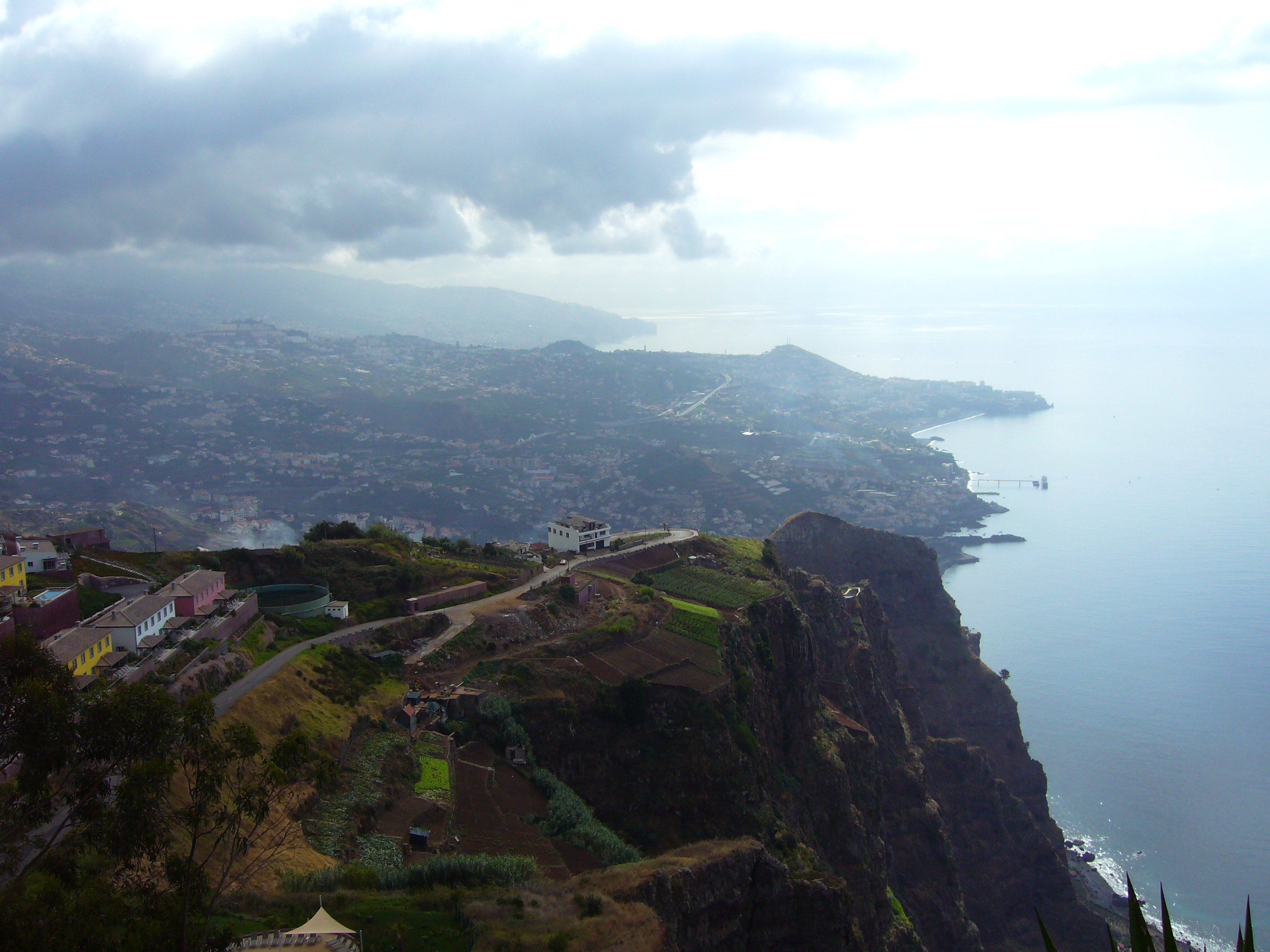 View from Cabo Girăo towards Funchal